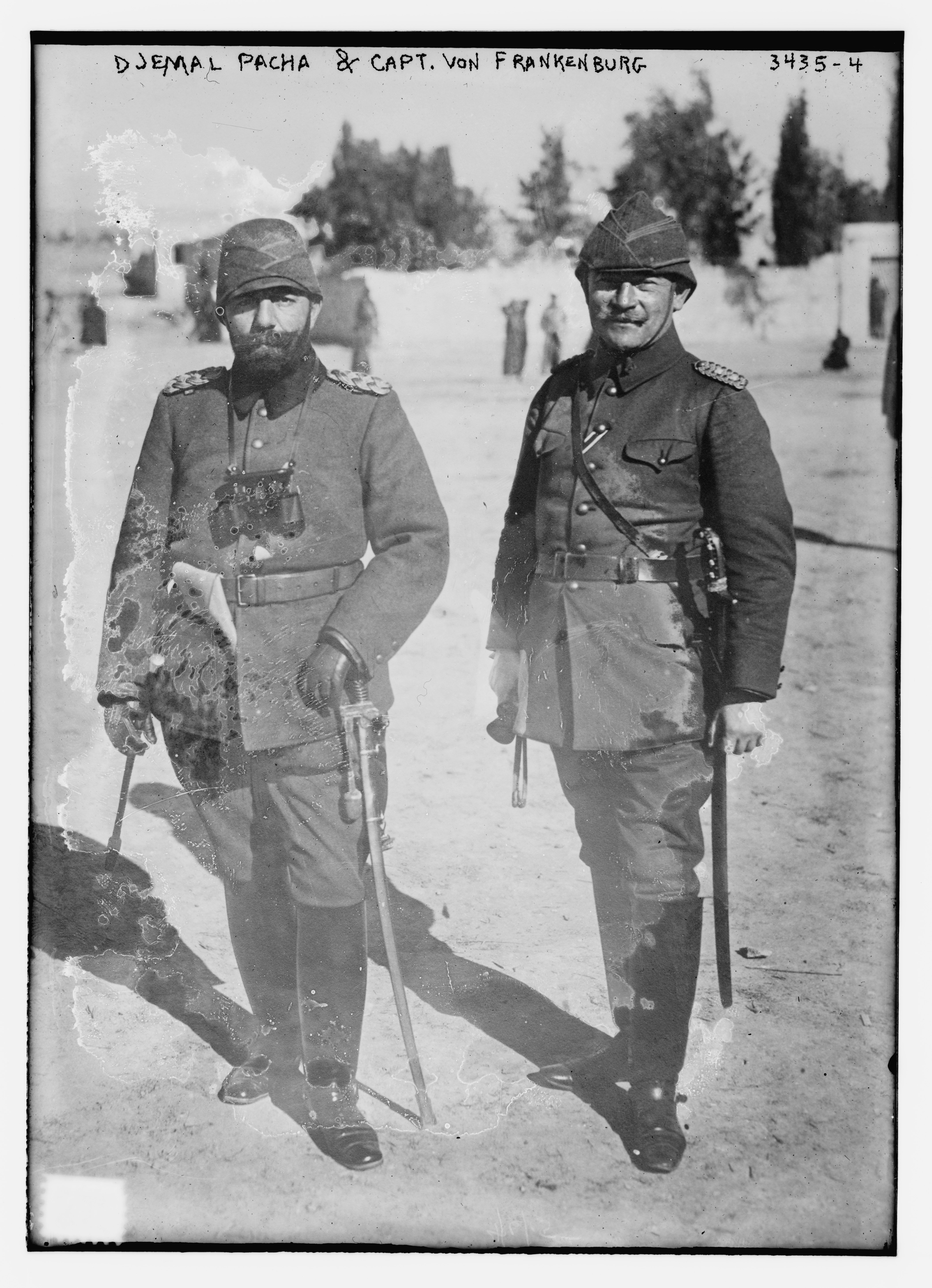 Title: Djemal Pacha & Capt. Von Frankenburg Abstract/medium: 1 negative : glass ; 5 x 7 in. or smaller.